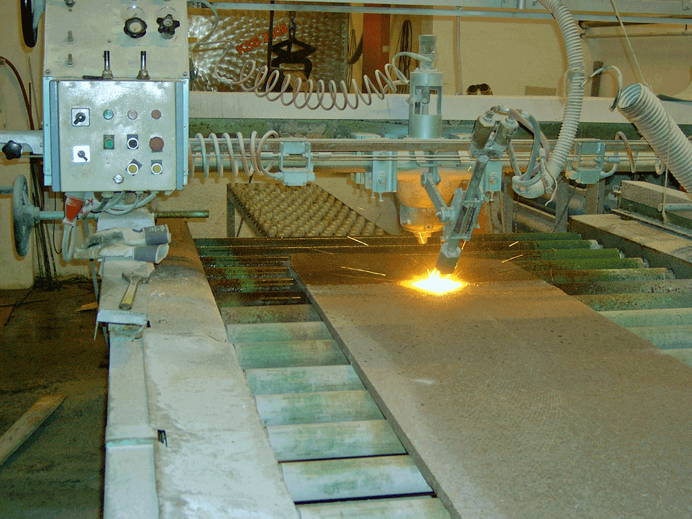 A machine for surface-treating stone plates with a blowtorch